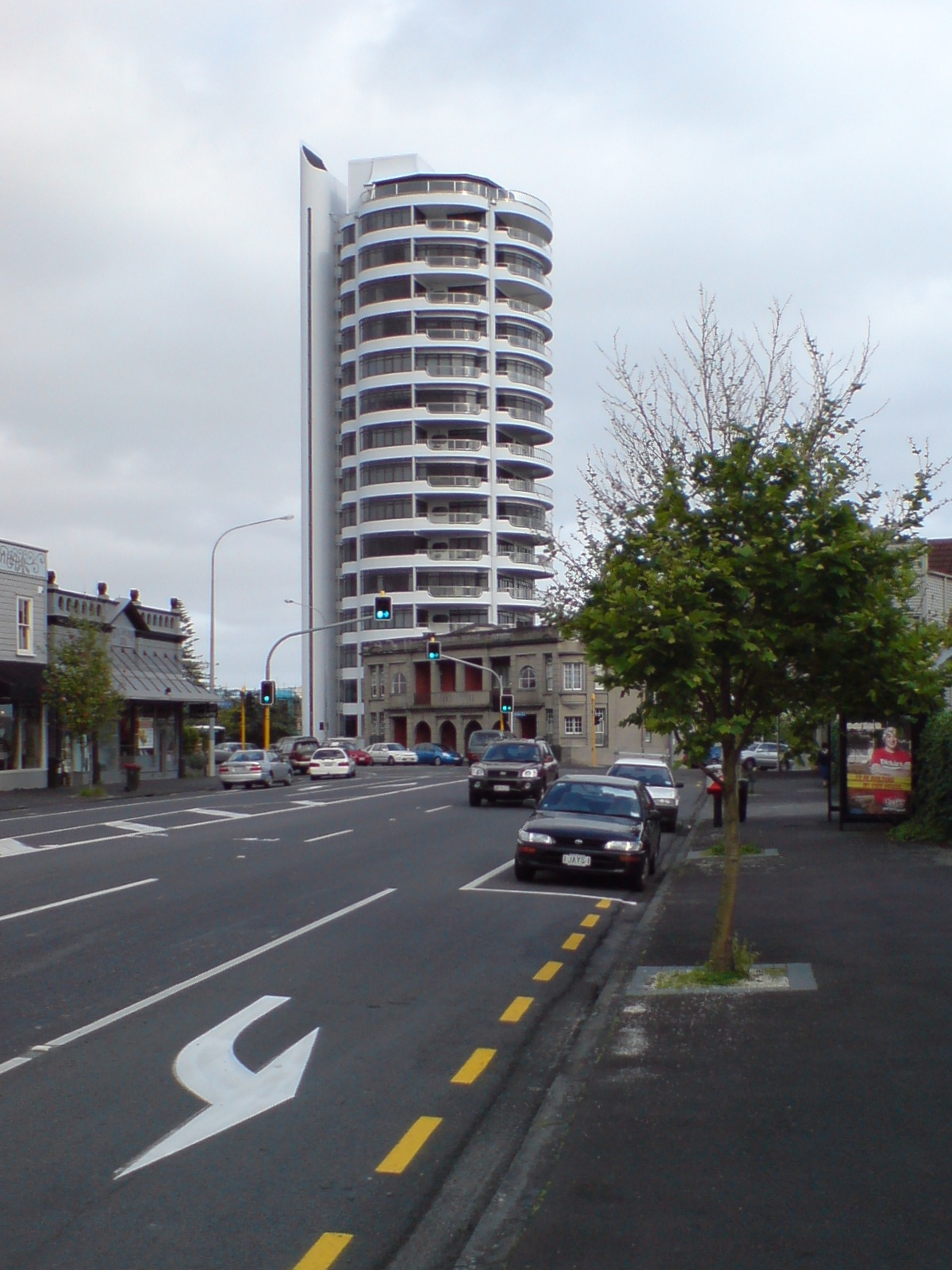 A residential skyscraper overlooking the Waitemata Harbour in Herne Bay, a suburb of Auckland, New Zealand.